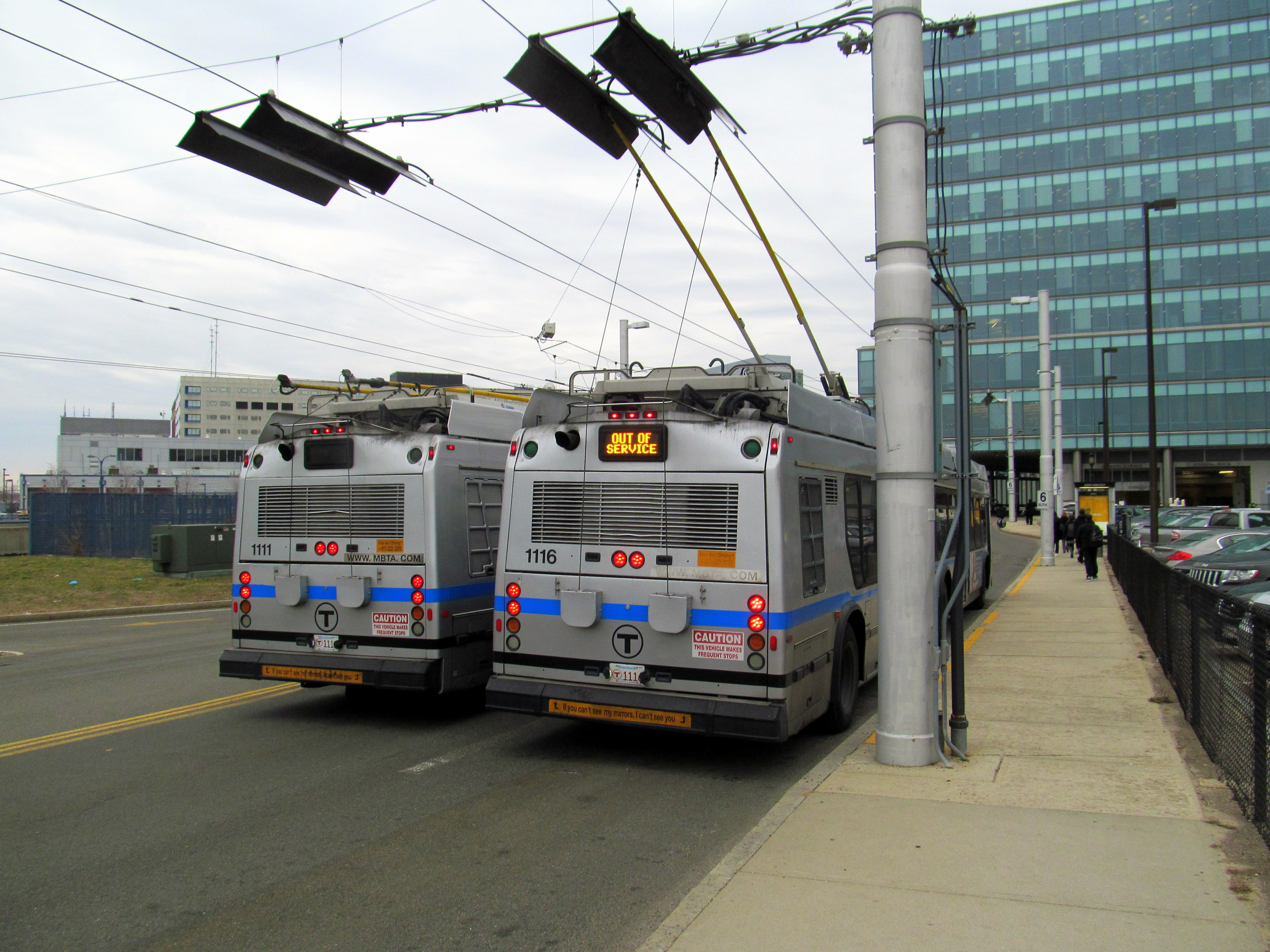 Buses changing from diesel to electric mode at Silver Line Way in March 2016